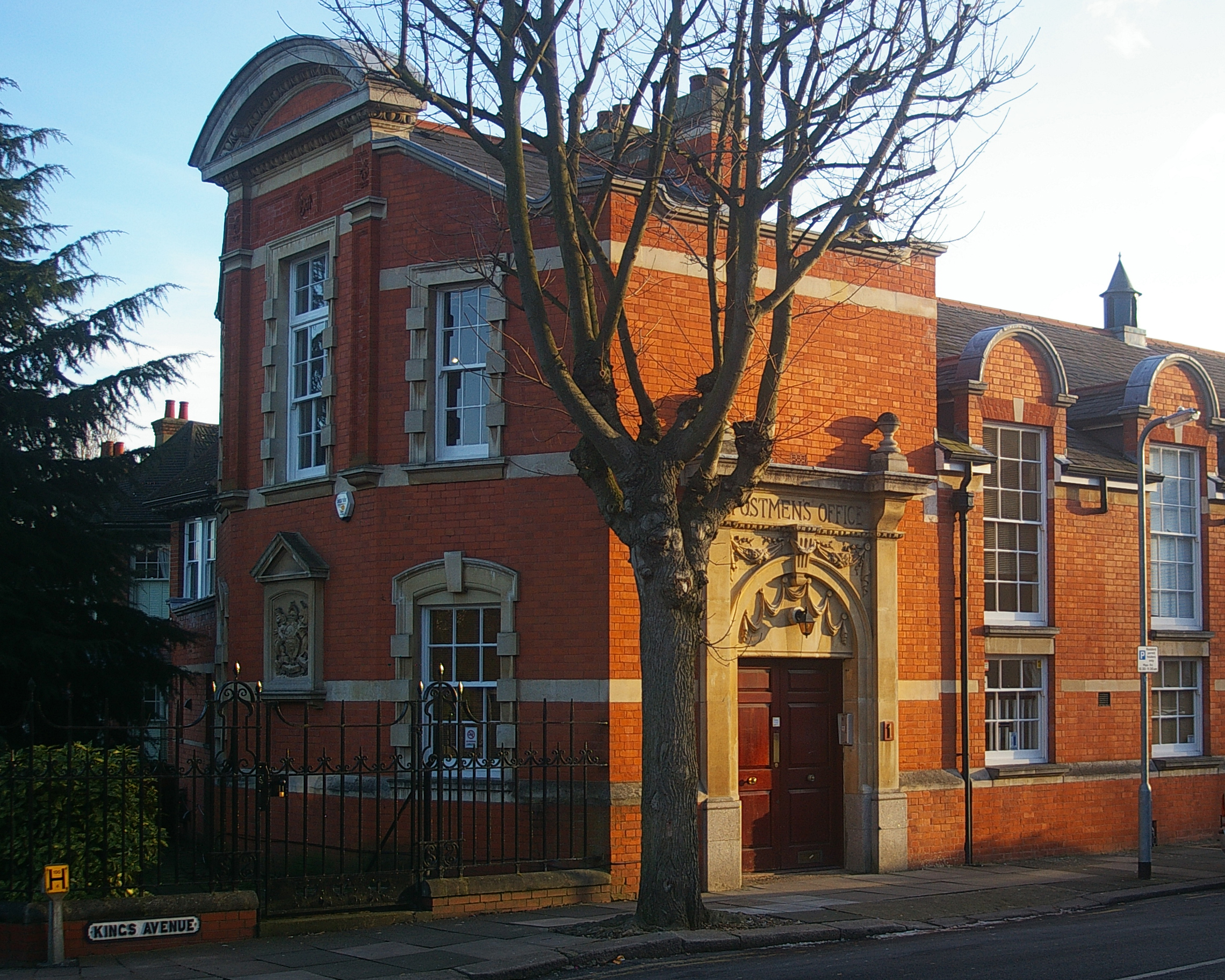 Former postal sorting office, Winchmore Hill, N21 One of a number of postal sorting or delivery offices in the London area, built between 1900 and 1910, in an Edwardian Baroque style